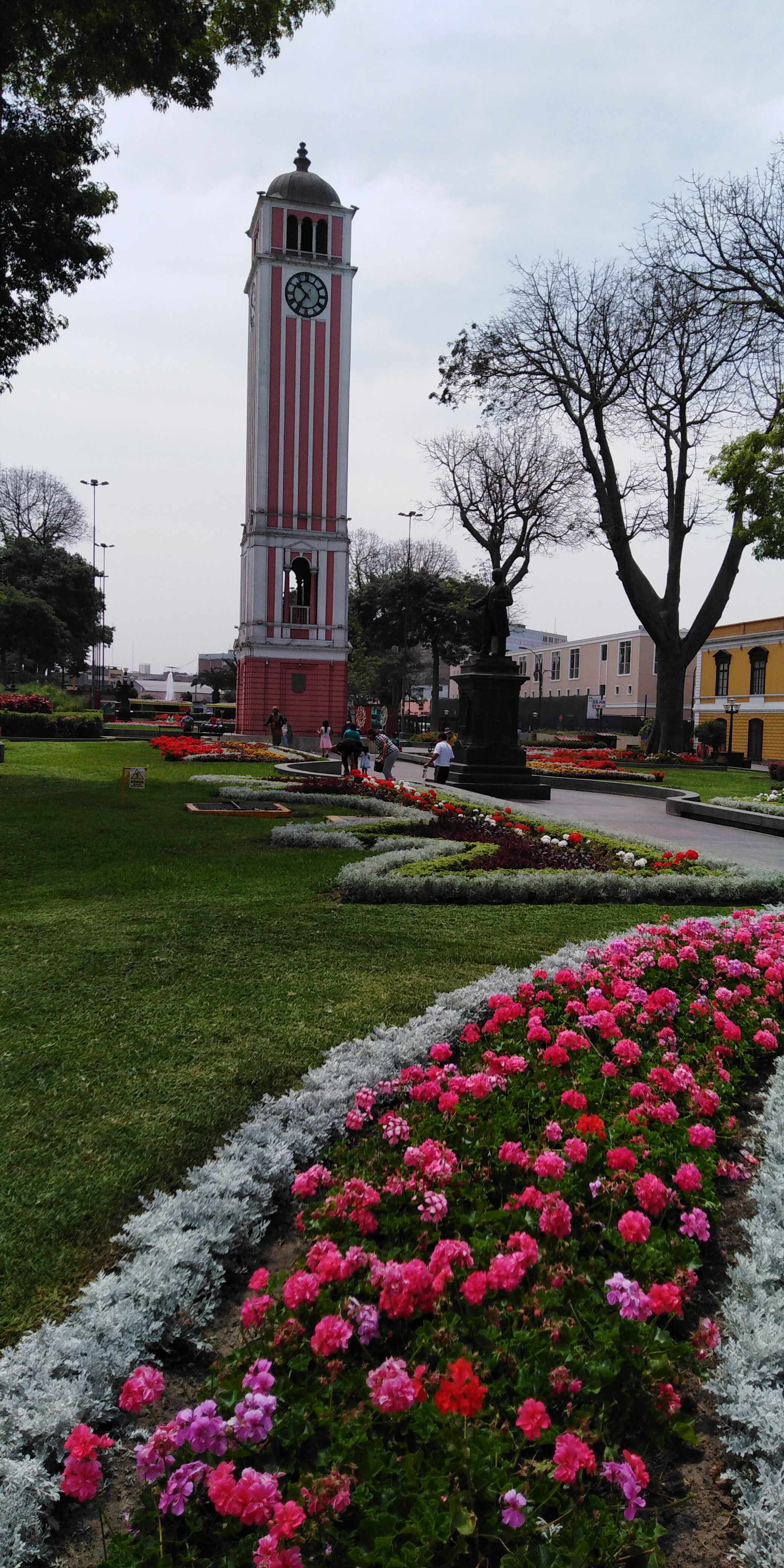 Parque Universitario and German Tower of Lima, Peru